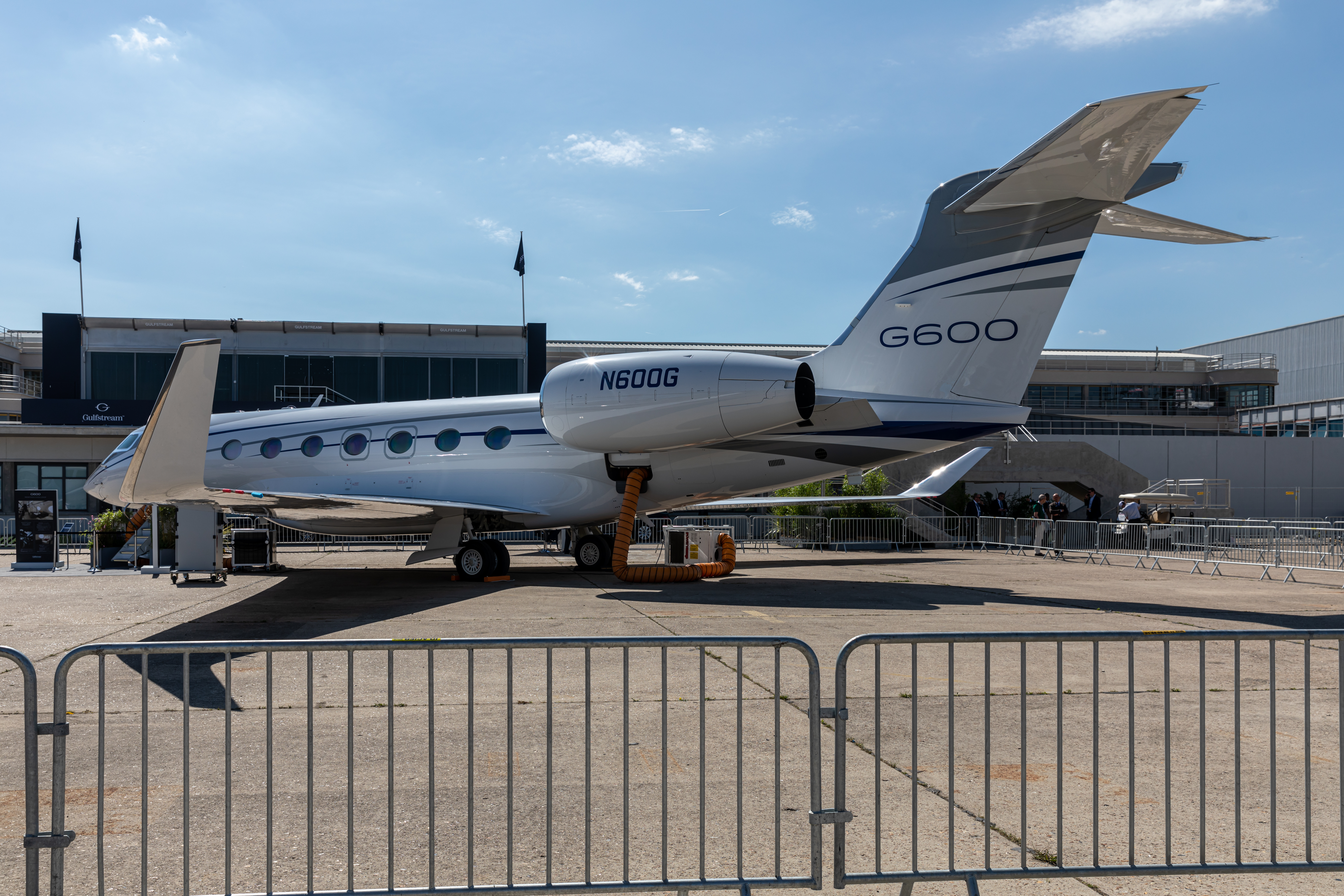 Gulfstream Aerospace at Paris Air Show 2019